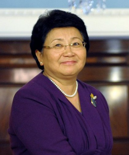 Kyrgyzstan President Roza Otunbayeva at the U.S. State Department in Washington D.C.